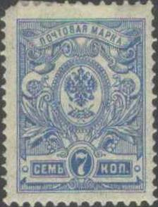 The eighteenth standard issue. Russian Imperial Eagle and Posthorns with Thunderbolts. 7k blue